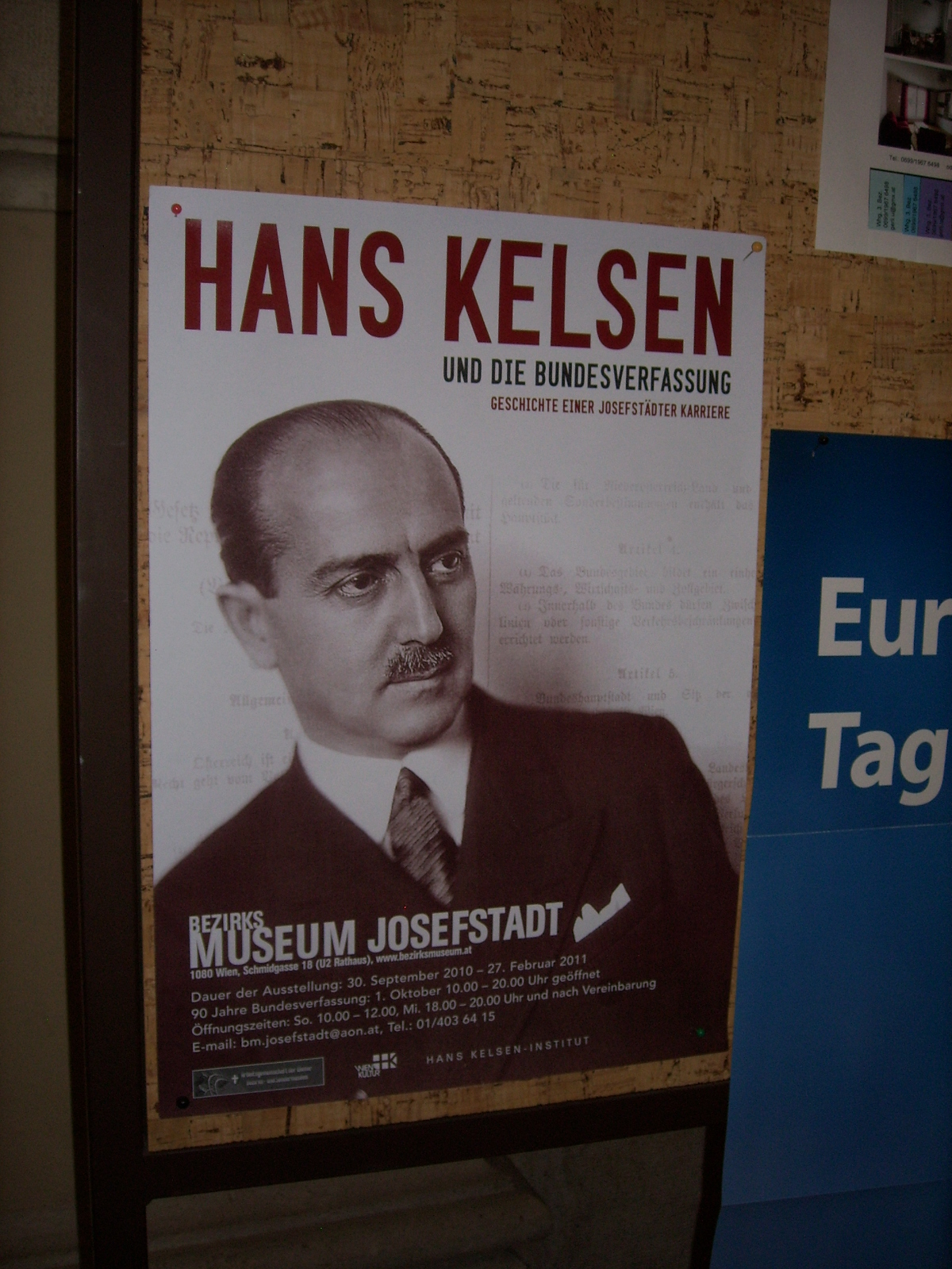 Poster of the Hans Kelsen exhibition in Vienna 2010.